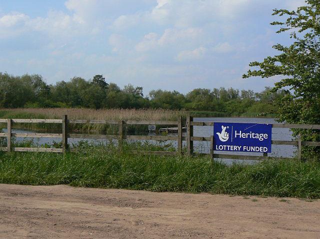 Lottery funded Lottery assistance was used to clear silt from the pond to improve its wildlife and fishing assets.